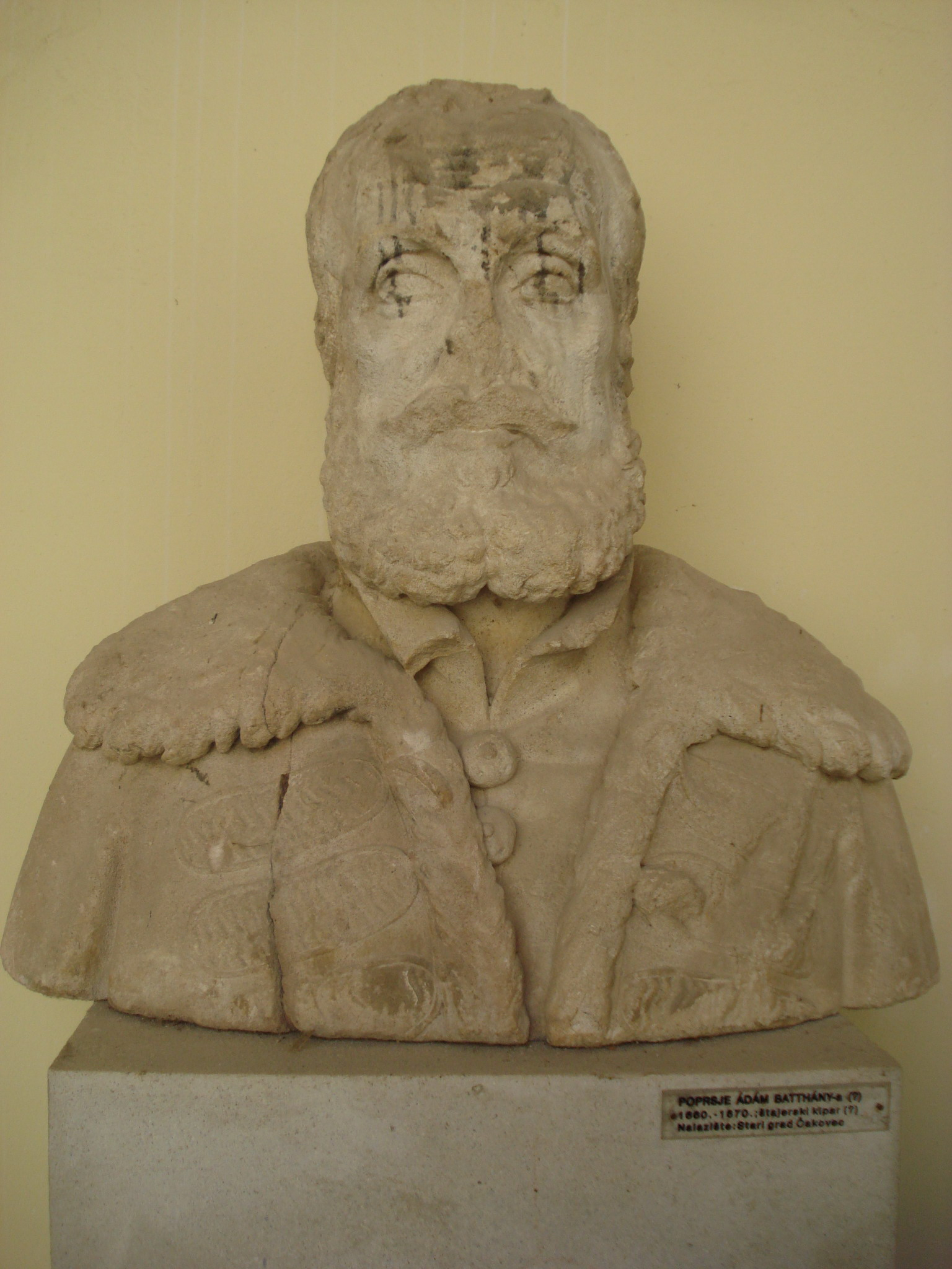 Adam Batthyany (1610-1659), Hungarian Count, bust in Čakovec (Croatia)